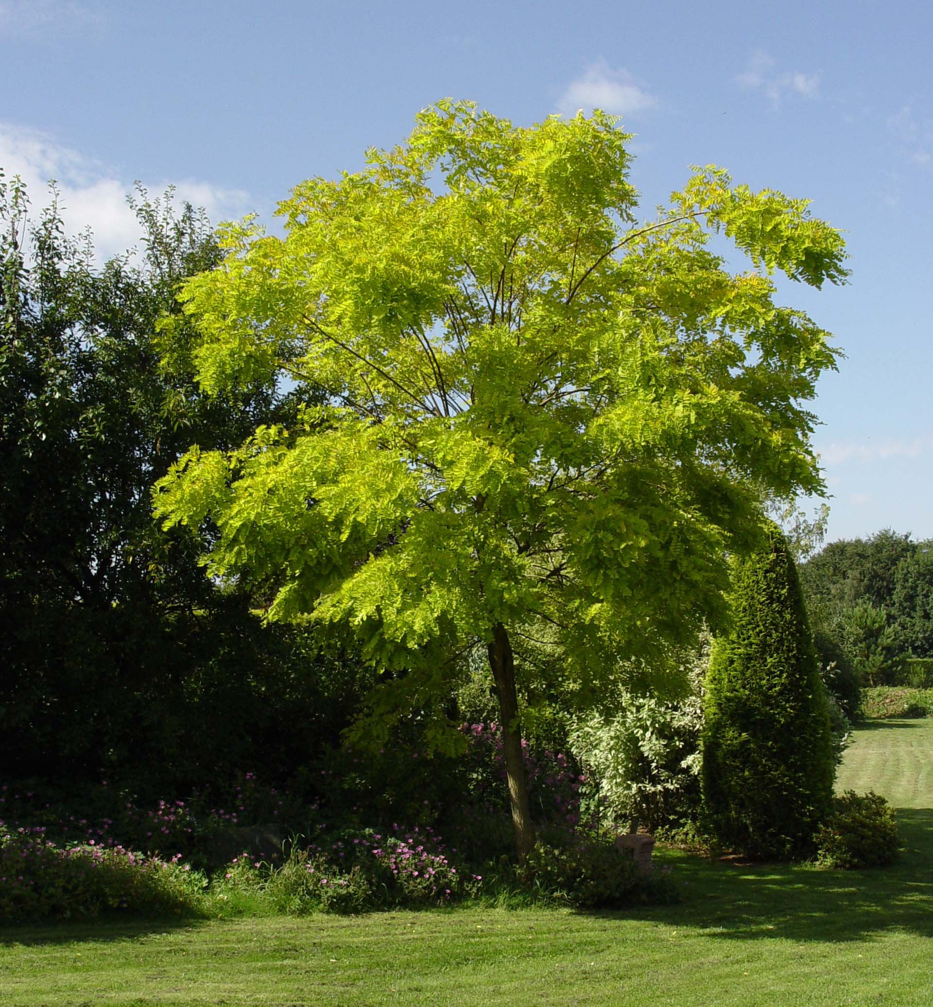 Black Locust 'Frisia'